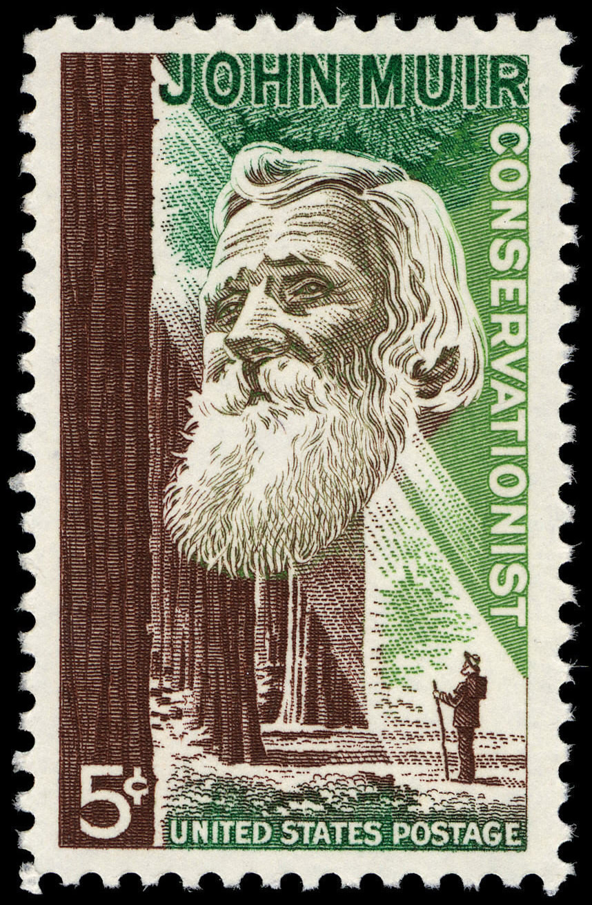 1964 stamp honoring John Muir.